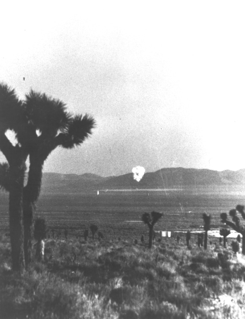 Operation Hardtack II, EDDY Event - Nevada Test Site, EDDY Event, first event of the 1958 fall series on 19 September 1958, at the Nevada Test Site. This event was detonated from a balloon 500-feet above Yucca Flat.